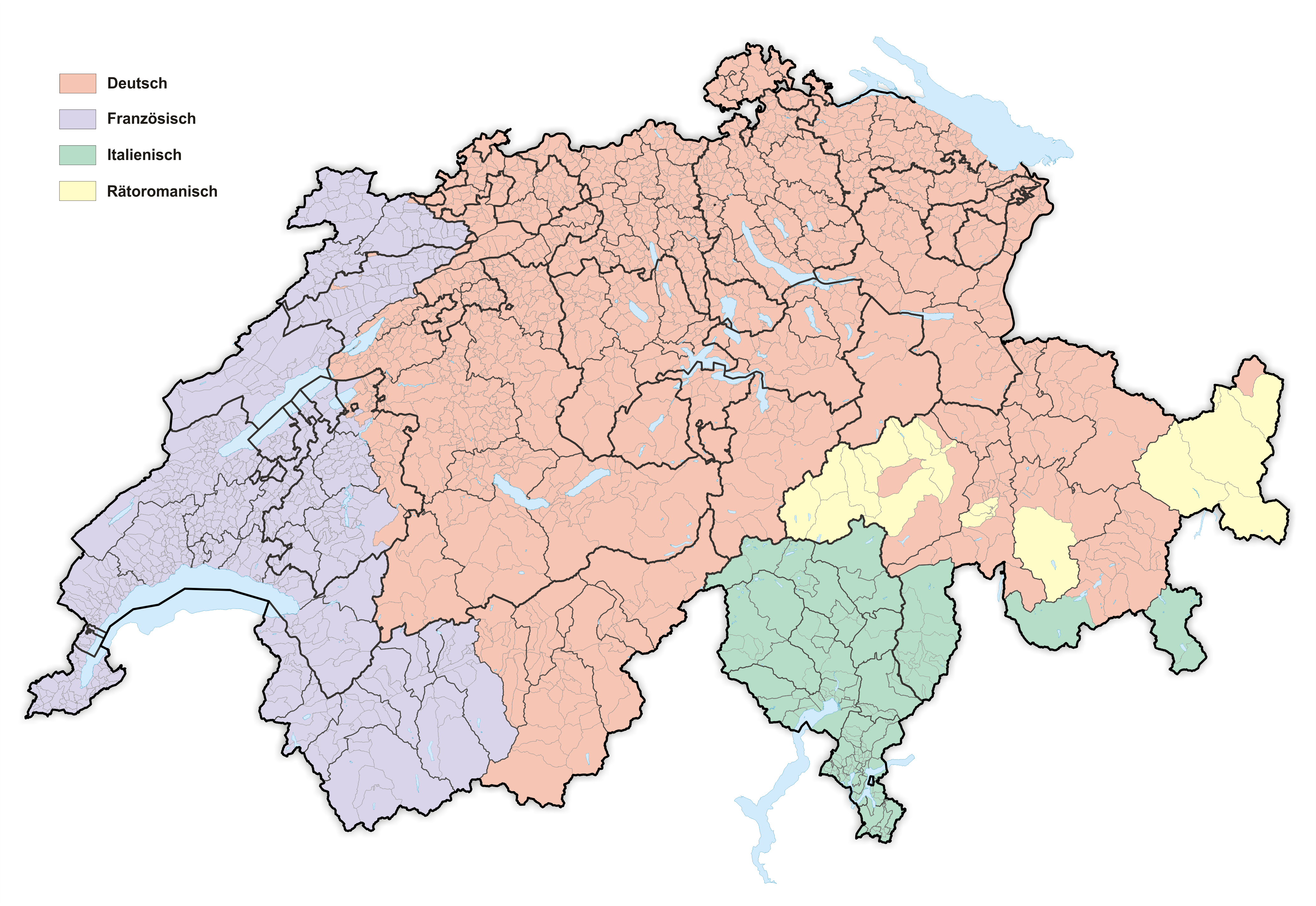 Languages in Switzerland